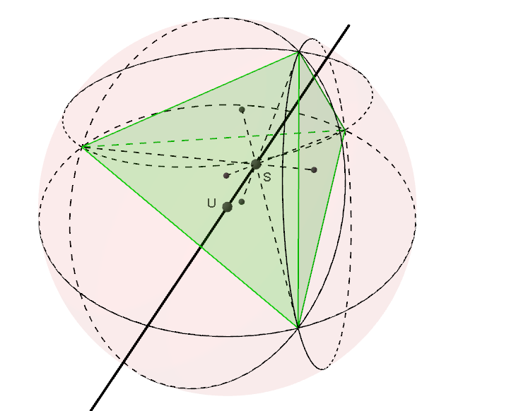 euler line in a tetrahedron